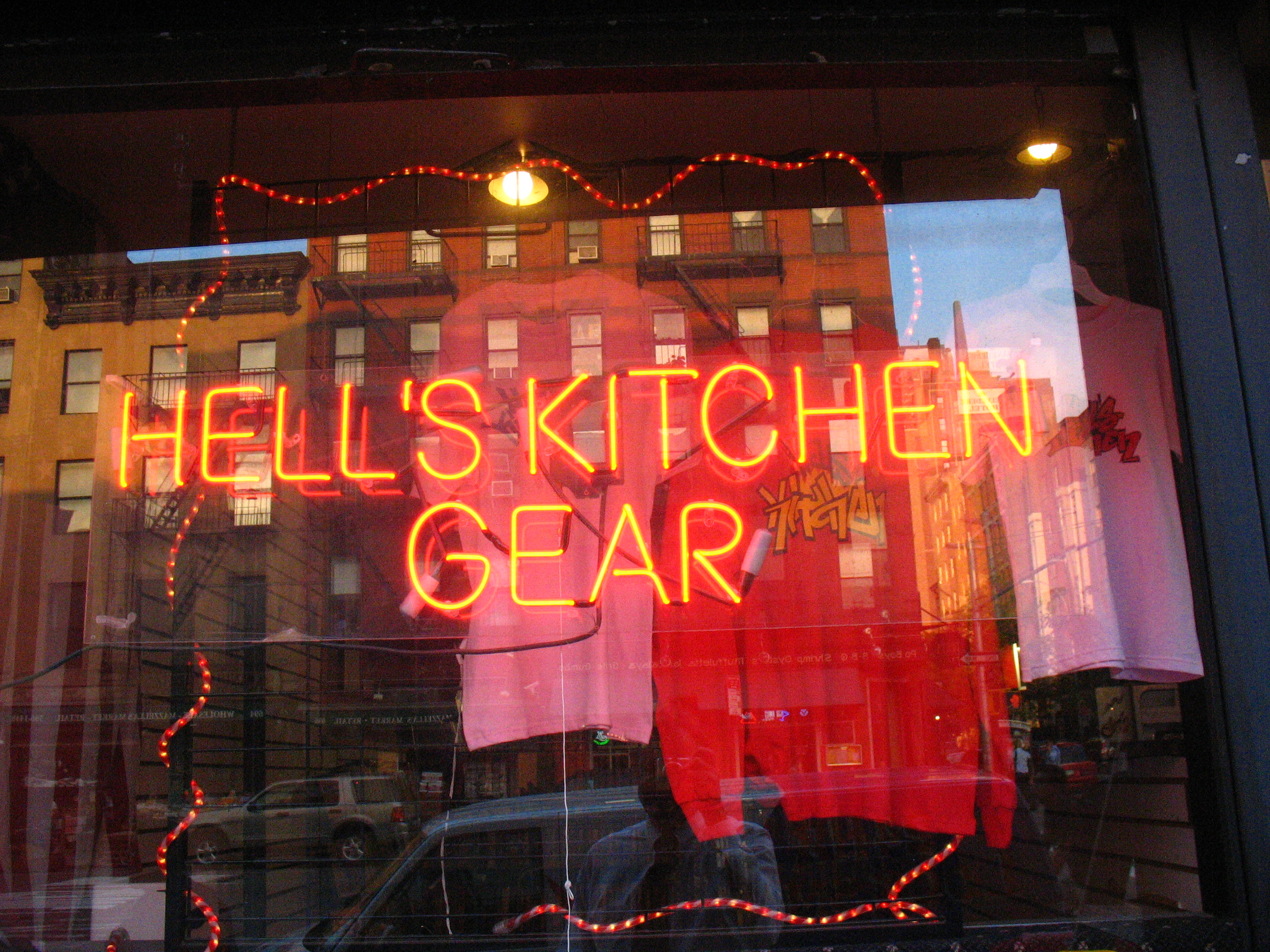 Hell's Kitchen Gear display in Manhattan